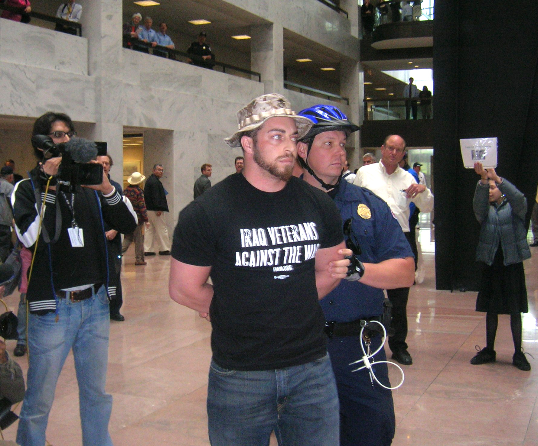 Adam Kokesh one of several indivduals arrested after a nonviolent protest against the Iraq war in the Senate Hart Office Building, Washington, DC.